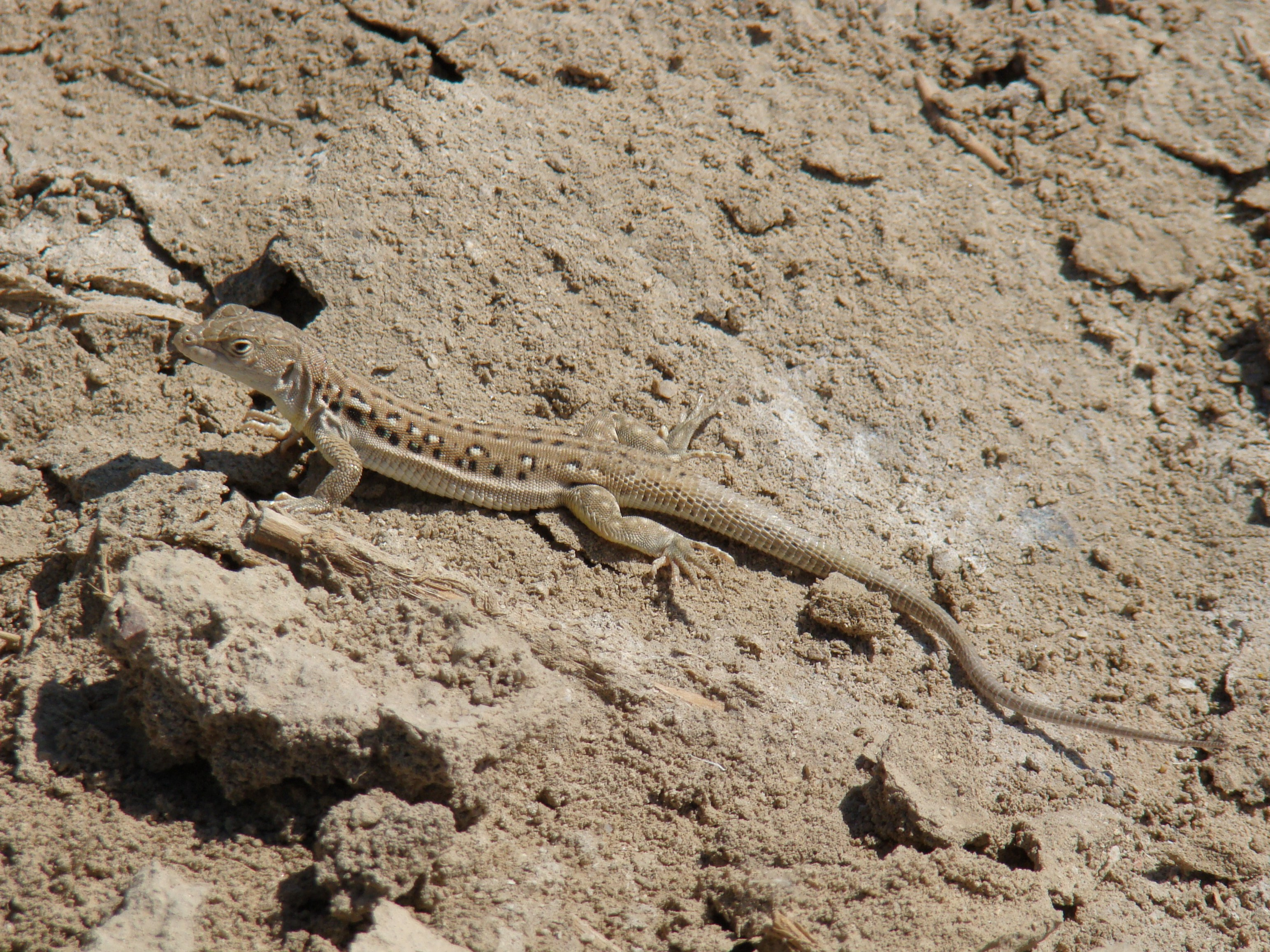 Rapid Racerunner (Eremias velox). Kazakhstan, Kyzylorda region, Baikonur.